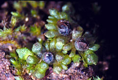 Female plants of Sphaerocarpos texanus, containing mature sporophytes. Specimens collected in Alameda Co., California, USA